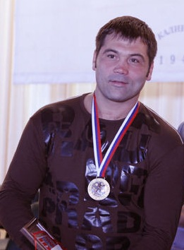 Andrei Kurnyavka